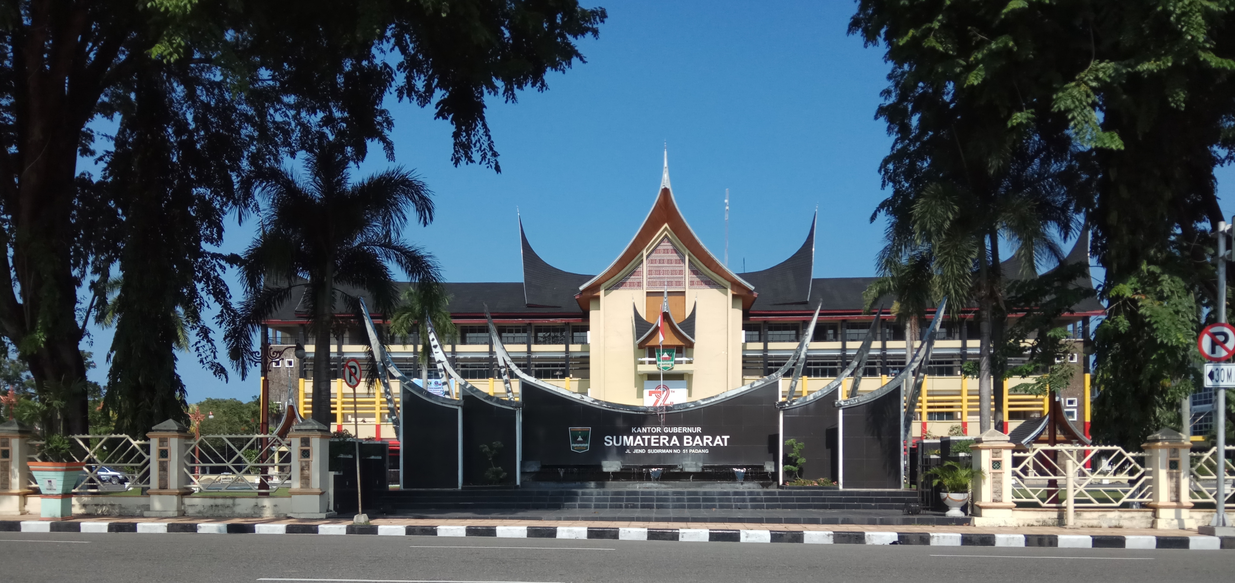 Kangub Sumbar Sep 2017